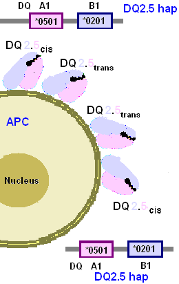 The image shows a single isoform is produced by DQA1*0501:DQB1*0201 homozygotes. Since each of alpha or beta can only pair with one type of beta or alpha, respective, cis and trans-haplotype recombination result in a single isoform, DQ2.5.